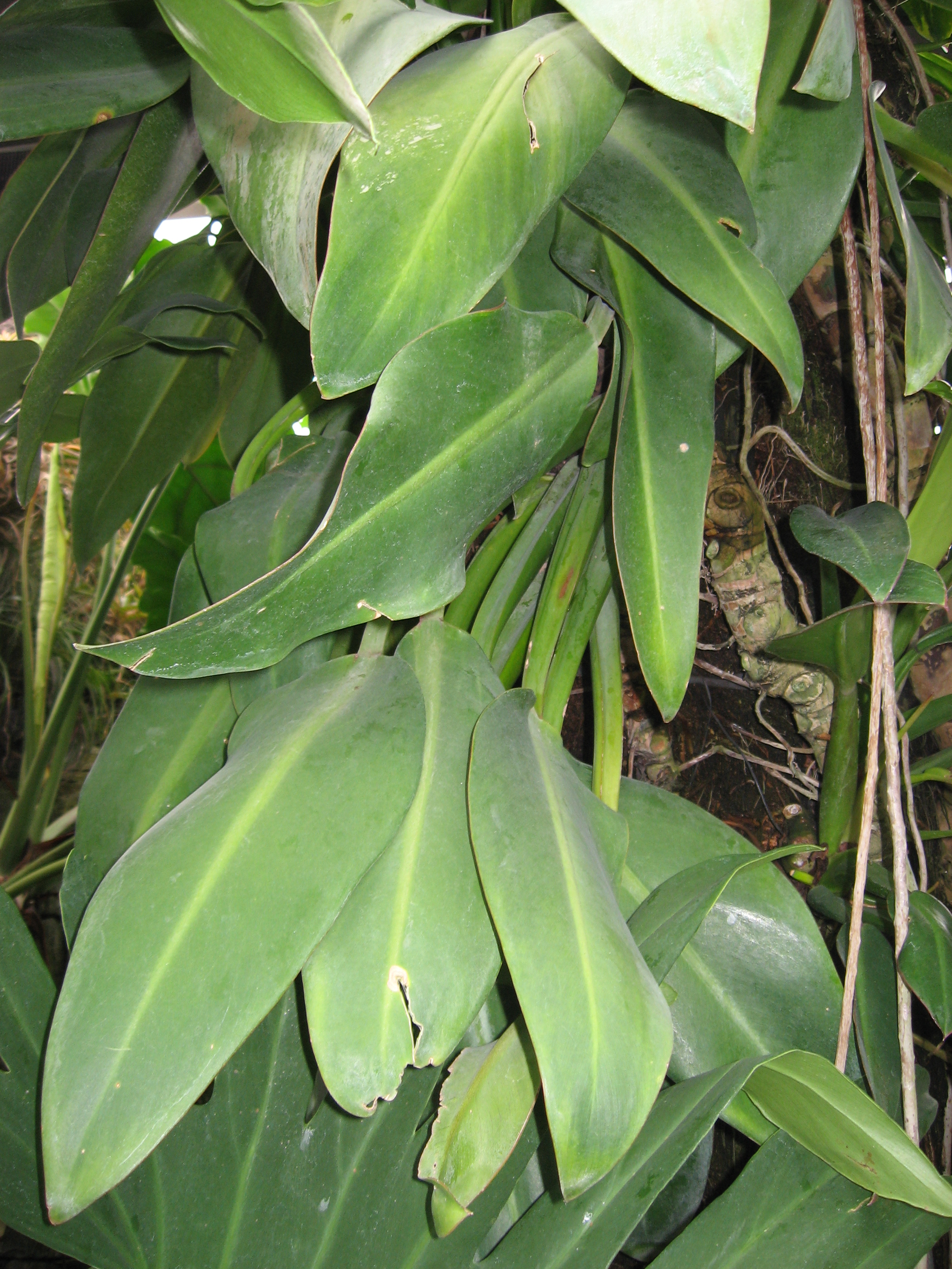 A picture of Philodendron martianum.